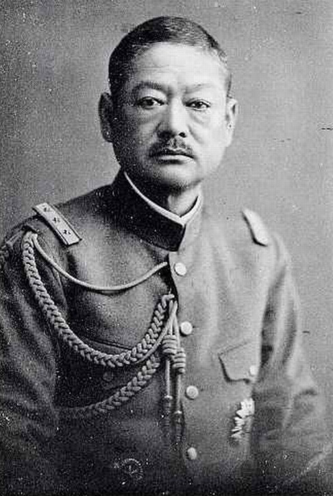 Kanaya Hanzō (Japanese 金谷 範 三; * April 24, 1873 in Takada, Kunisaki District (today: Bungo-Takada), Ōita Prefecture; † June 6, 1933) was a Japanese general of the Imperial Japanese Army. Between 1930 and 1931 he was the Chief of the General Staff of the Imperial Japanese Army (Sanbo Honbu).